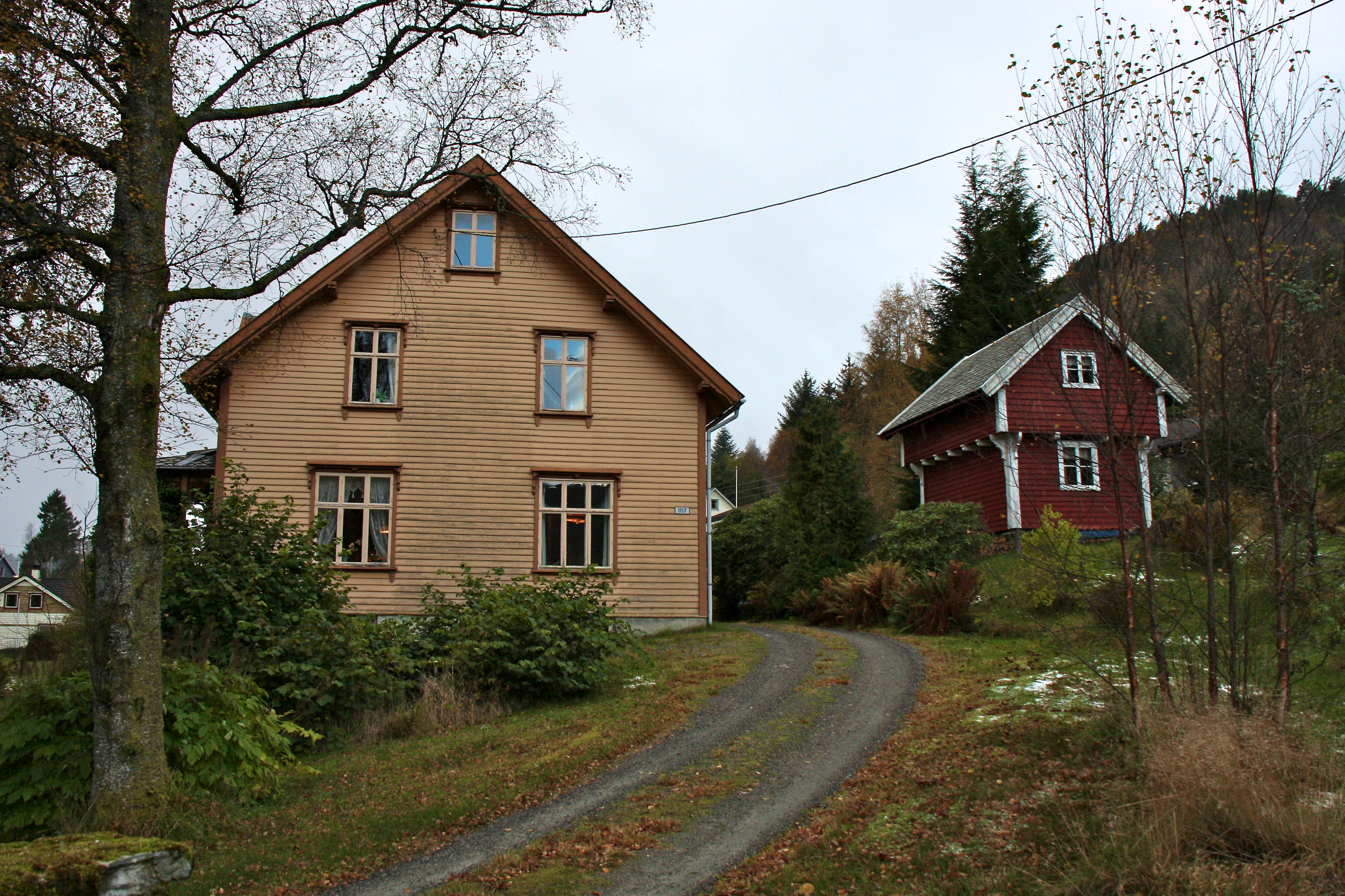 Gulen municipality, Norway.